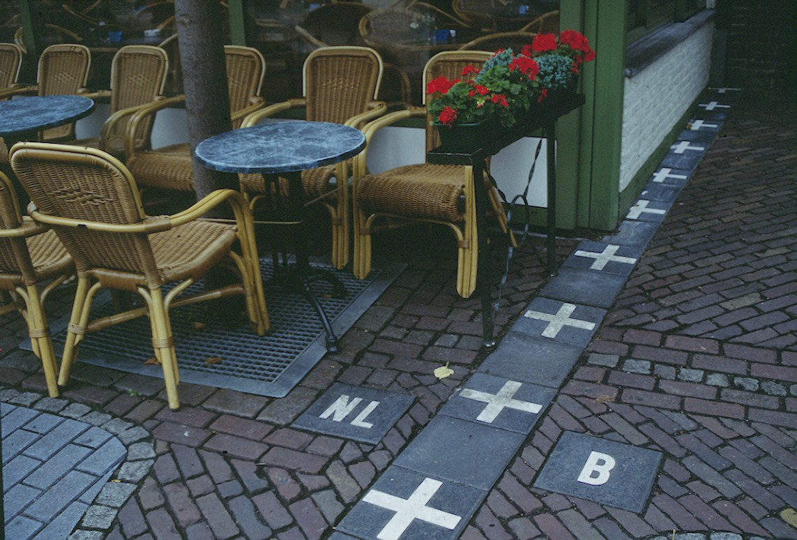 Café in Baarle-Nassau (Netherlands), on the border with Belgium. The border is marked on the ground (N119/N260).